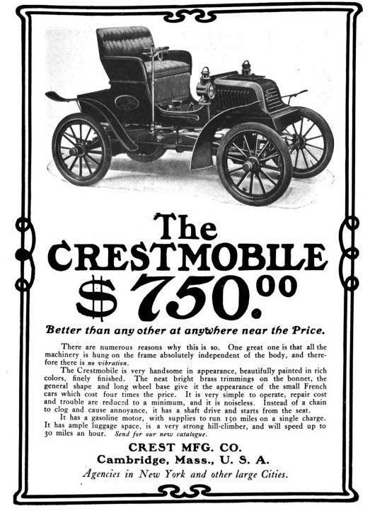 Advertisement for the Crestmobile automobile from page 51 of McClure's magazine. From the Google Books archive: Title McClure's magazine ..., Volume 20 Publisher S. S. McClure, Limited, 1903